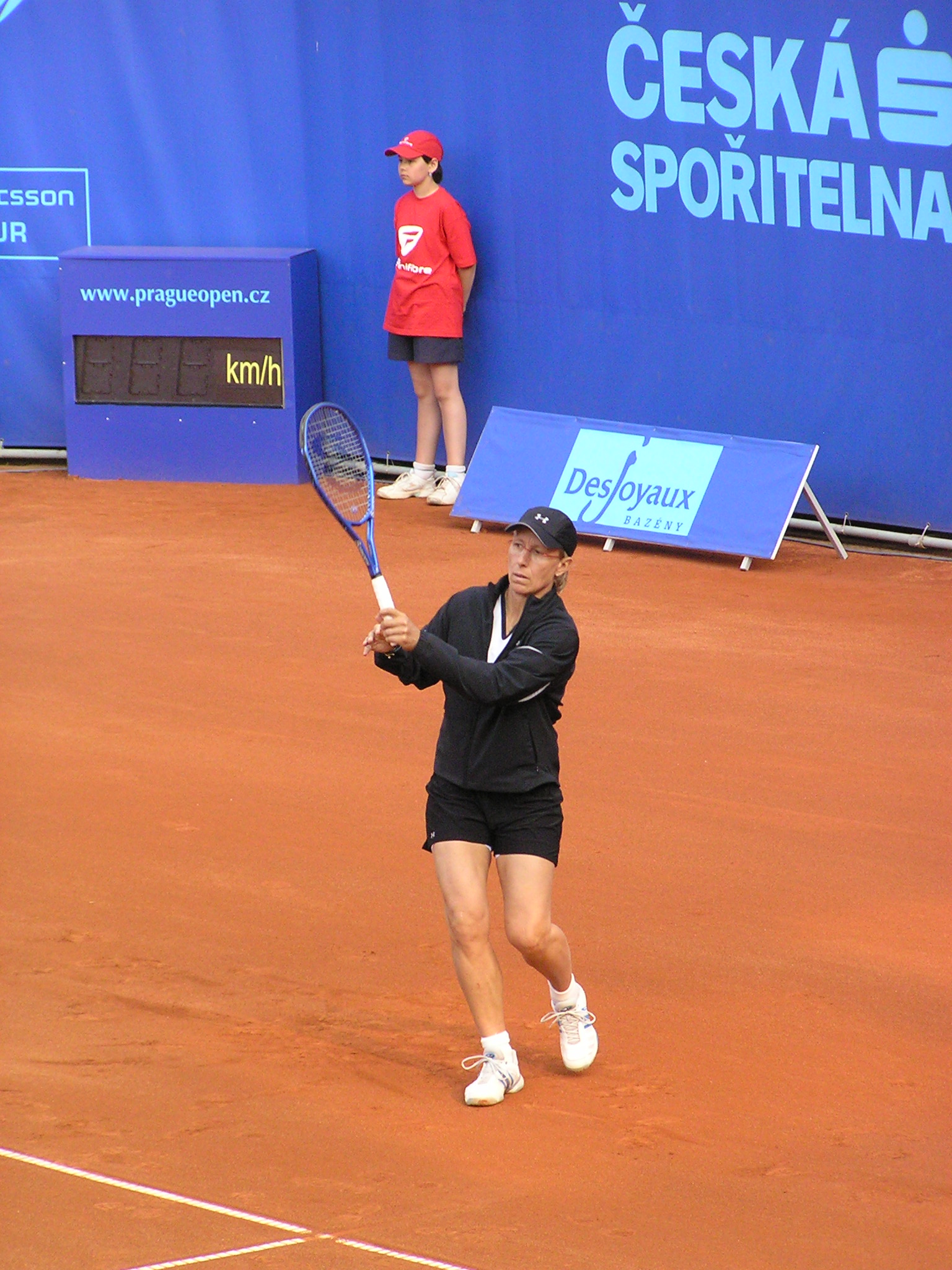 Martina Navrátilová ! Photo taken from ECM Prague Open 2006 ( - Prague, May 2006.